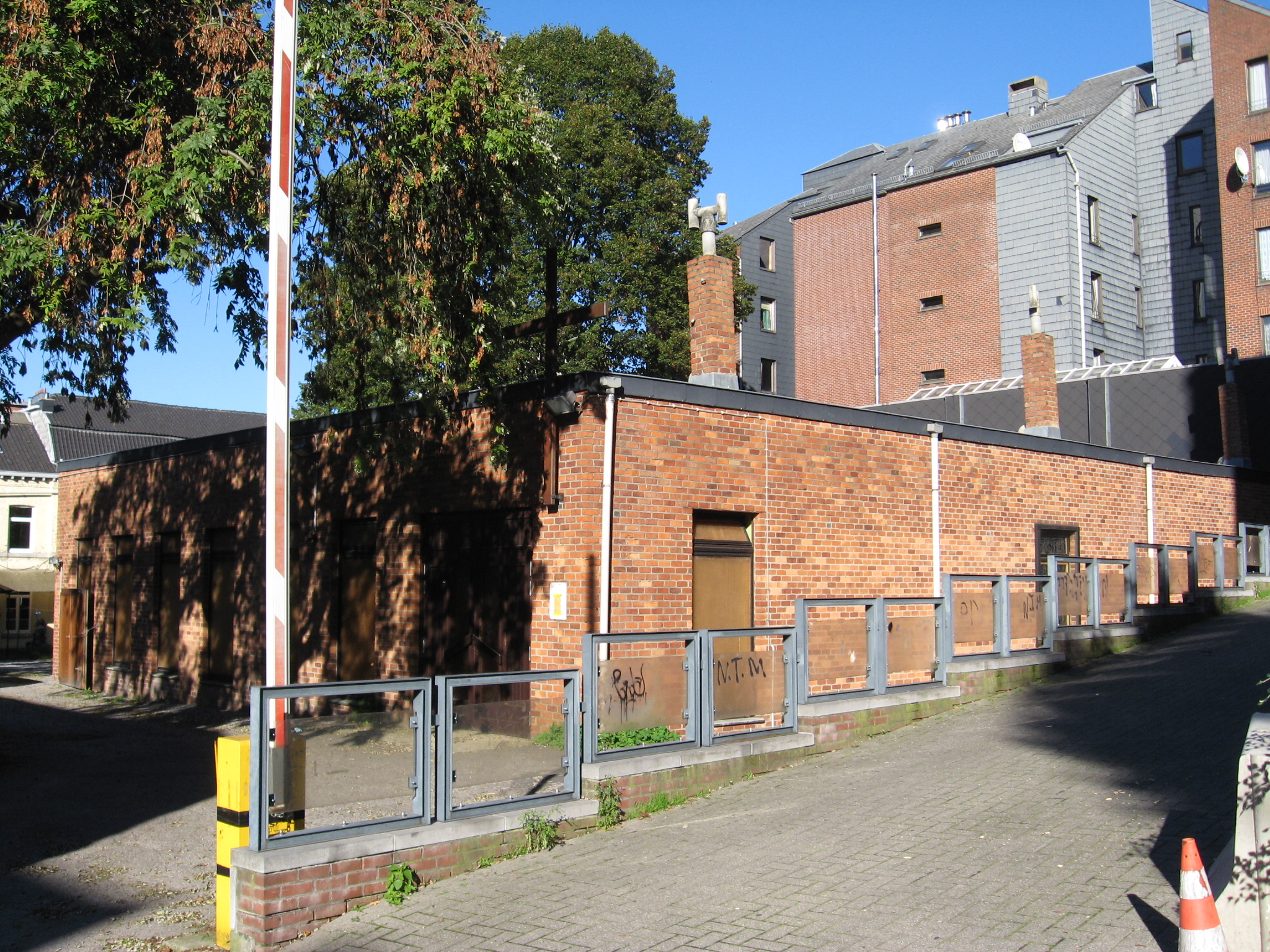 Church of Saint-Joseph in Verviers, Liège, Belgium